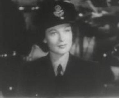 Cropped screenshot of Ruth Hussey from the film Marine Raiders